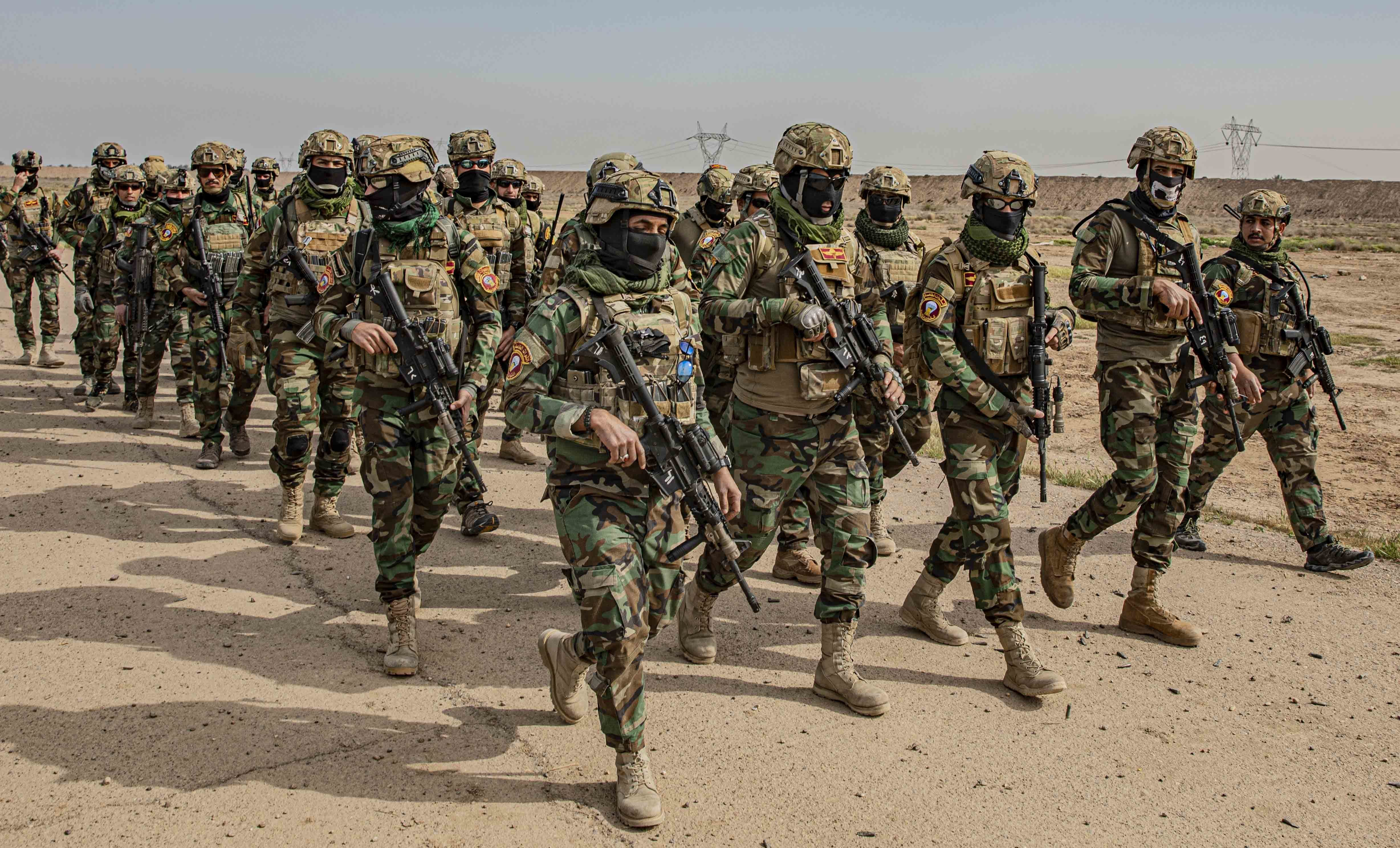 Soliders with Qwat al Khasah, the Special Forces of Iraq, march in formation as they take part in training for an upcoming mission at Camp Taji, Iraq March 7, 2020. The Qwat al Khasah, Special Forces of Iraq, are leading a coalition of nations in the fight against Daesh by interrupting enemy operations to continue the further stabilization of Iraq. (U.S. Army photo by Sgt. Robert Douglas).